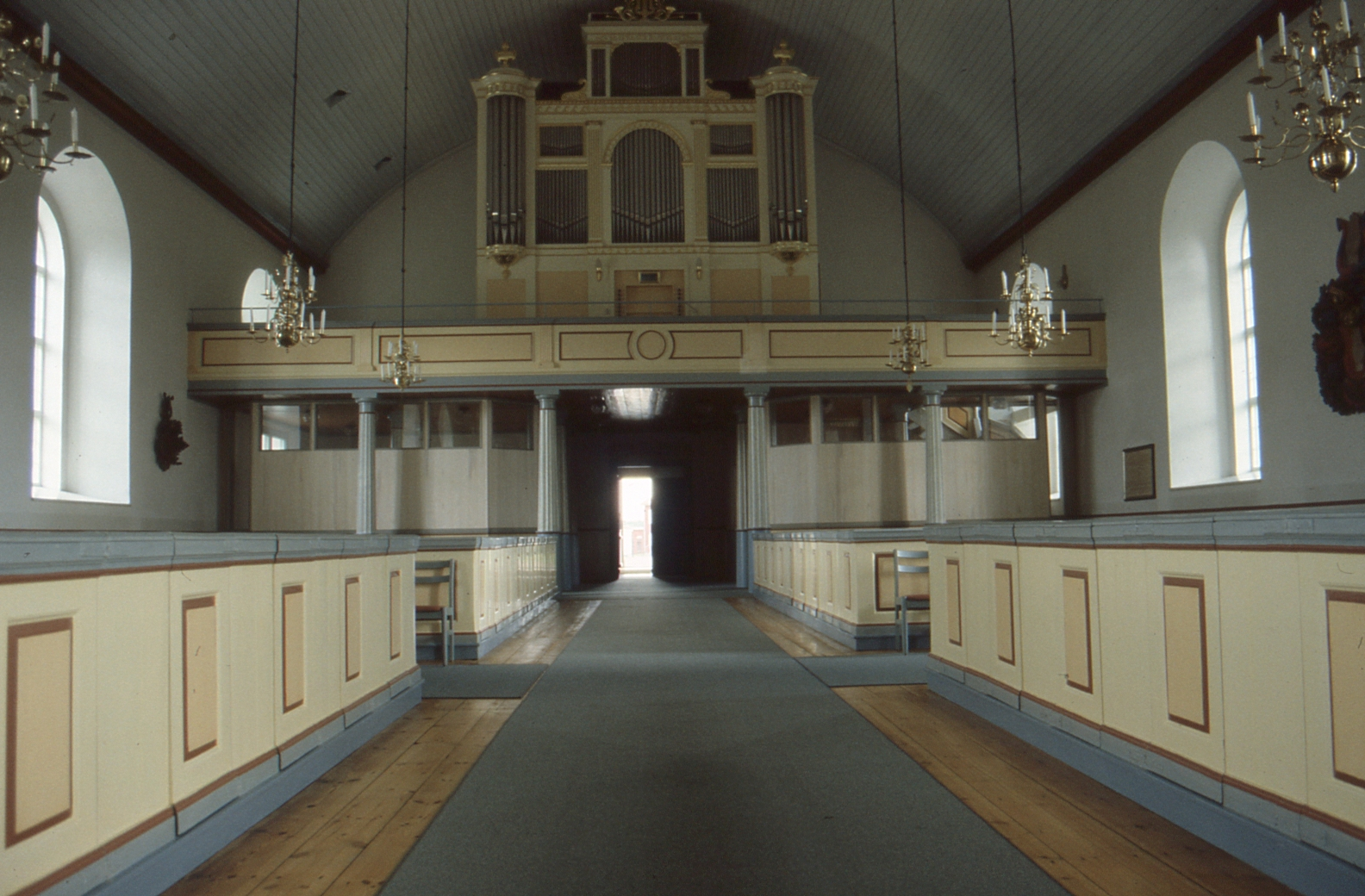 Interior of Målilla-Gårdveda kyrka